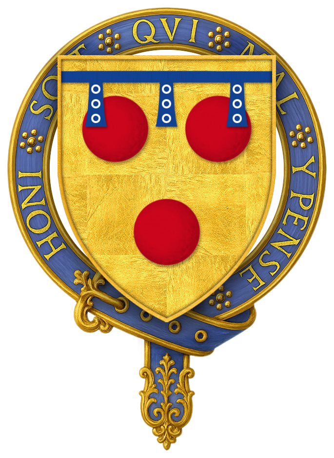 Coat of Arms of Sir Hugh de Courtenay, KG, and also of Sir Peter Courtenay, KG HOPE, W. H. St. John, The Stall Plates of the Knights of the Order of the Garter 1348 – 1485: A Series of Ninety Full-Sized Coloured Facsimiles with Descriptive Notes and Historical Introductions, Westminster: Archibald Constable and Company LTD, 1901. “ Sir Hugh Courtenay, one of the first founders… the shield of arms, gold three roundels gules and a label azure of three points having on each three annulets silver… ” “ Sir Peter Courtenay, K.G. 1388-1405… arms: gold three roundels gules a label azure with three annulets silver on each of the three points. ”